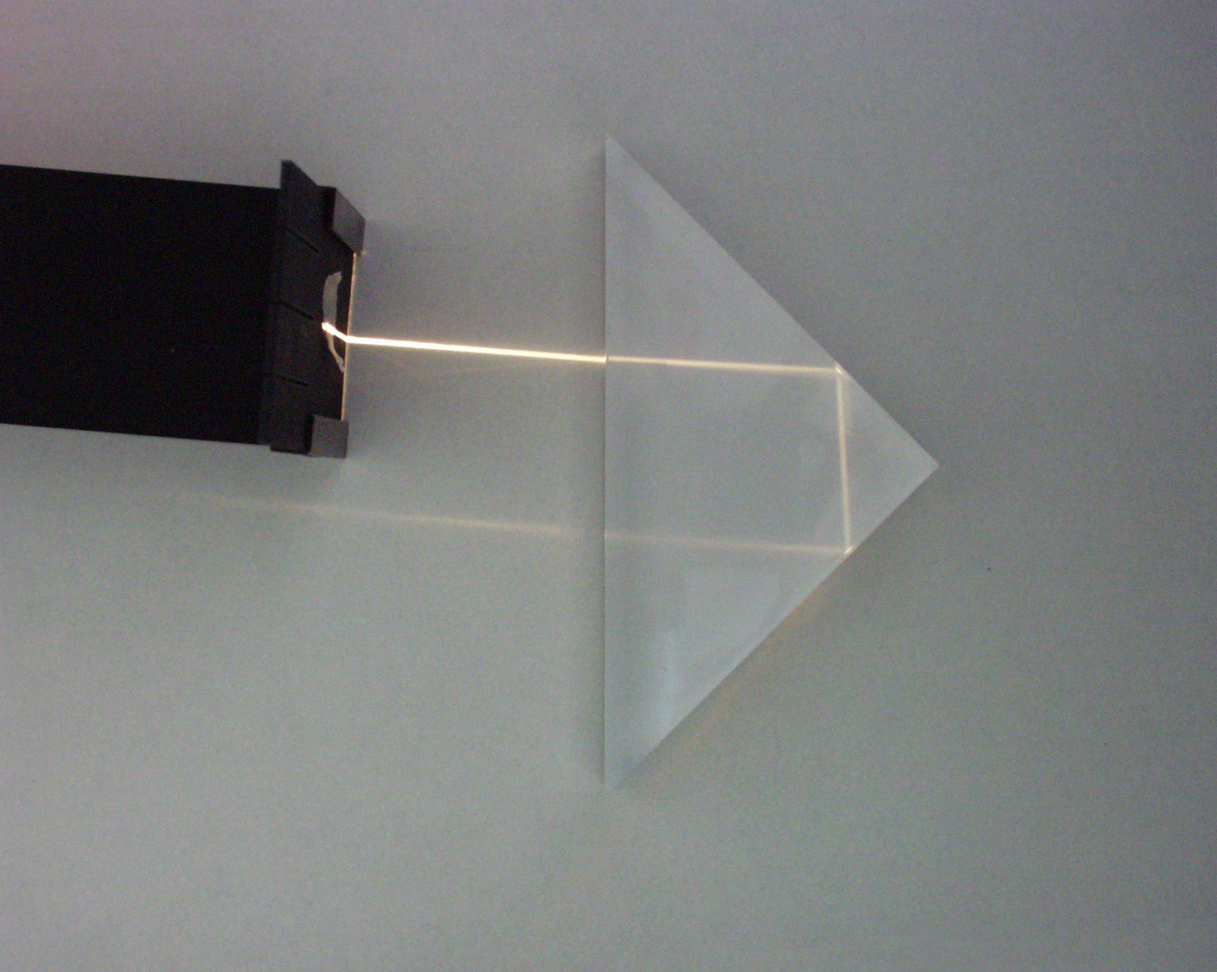 Retroreflection in prism.